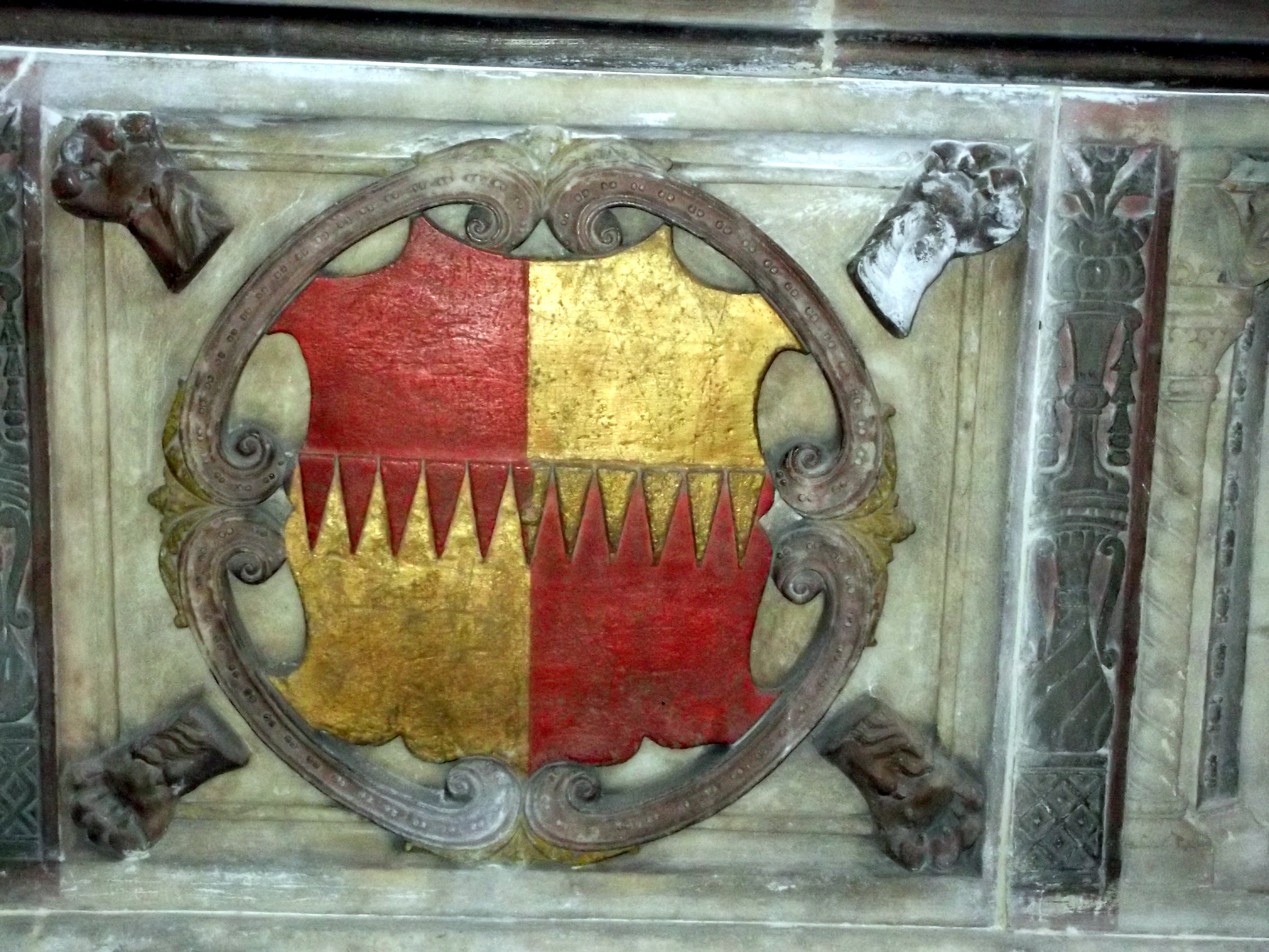 Arms of Thomas Bromley, appointed Chief Justice of the Queen's Bench by Mary, 1553, buried Wroxeter, 1555. Tomb of Thomas Bromley and his wife, Isabel Lyster. St Andrews parish church, Wroxeter, Shropshire.